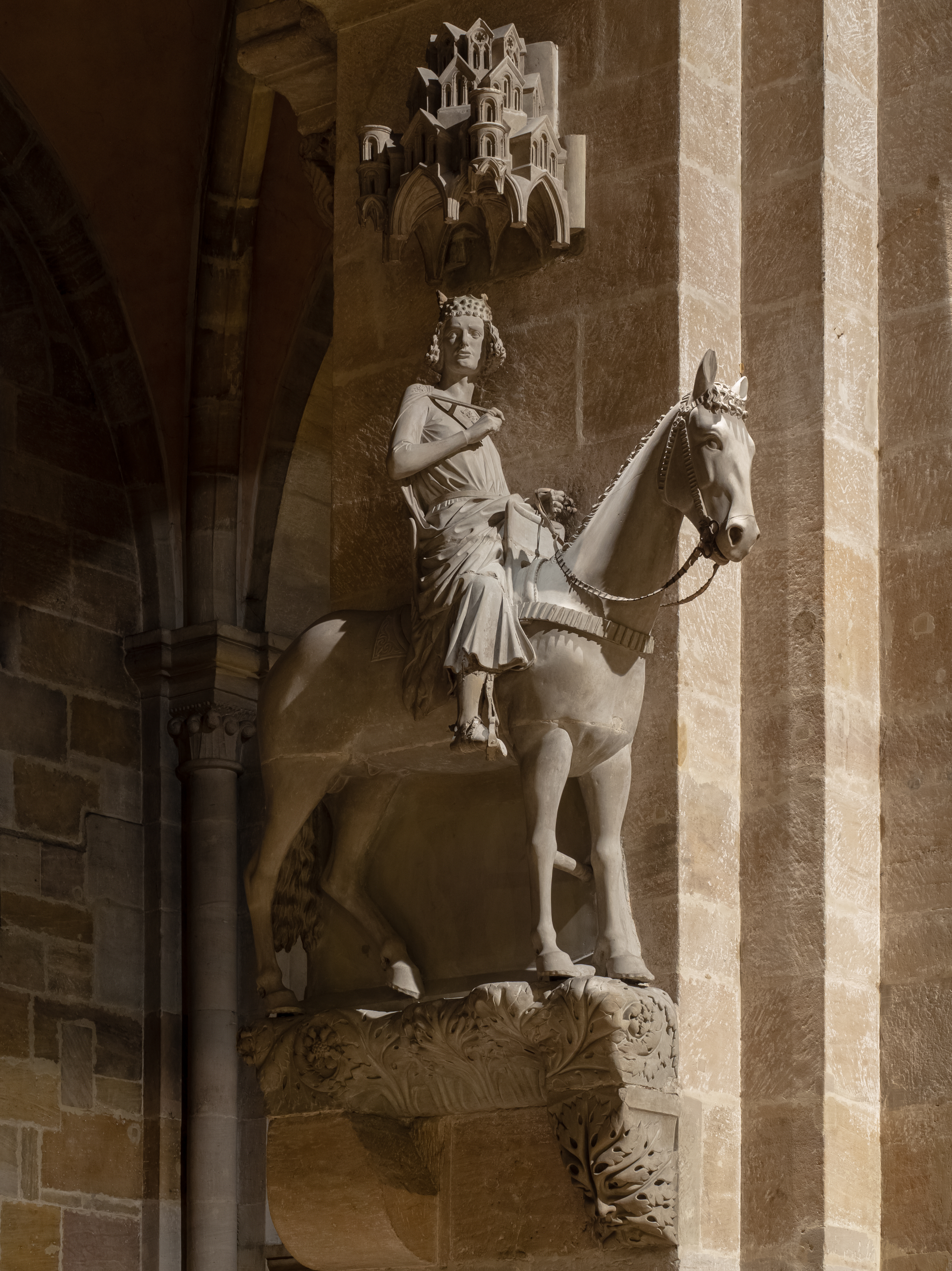 Horseman statue in the Bamberg cathedral so-called Bamberg Horseman